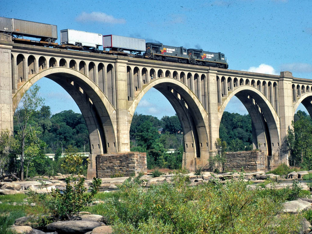 Northbound Seaboard System freight crossing the James River, Richmond VA.